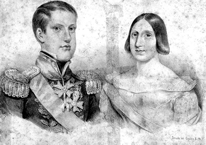 Brazilian Emperor Pedro II and his wife Teresa Cristina at the time of their wedding, 1843.